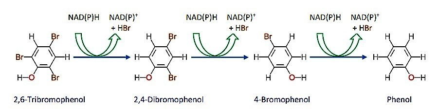 Step wise degradation of 2,4,6-TBP [Yamada et al., 2008].